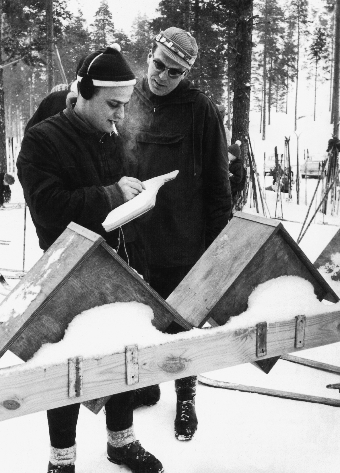 Photograph of the Finnish sport journalists Pentti Vuorio (1930–) and Voitto Raatikainen (1930–2012) in Jyväskylä.